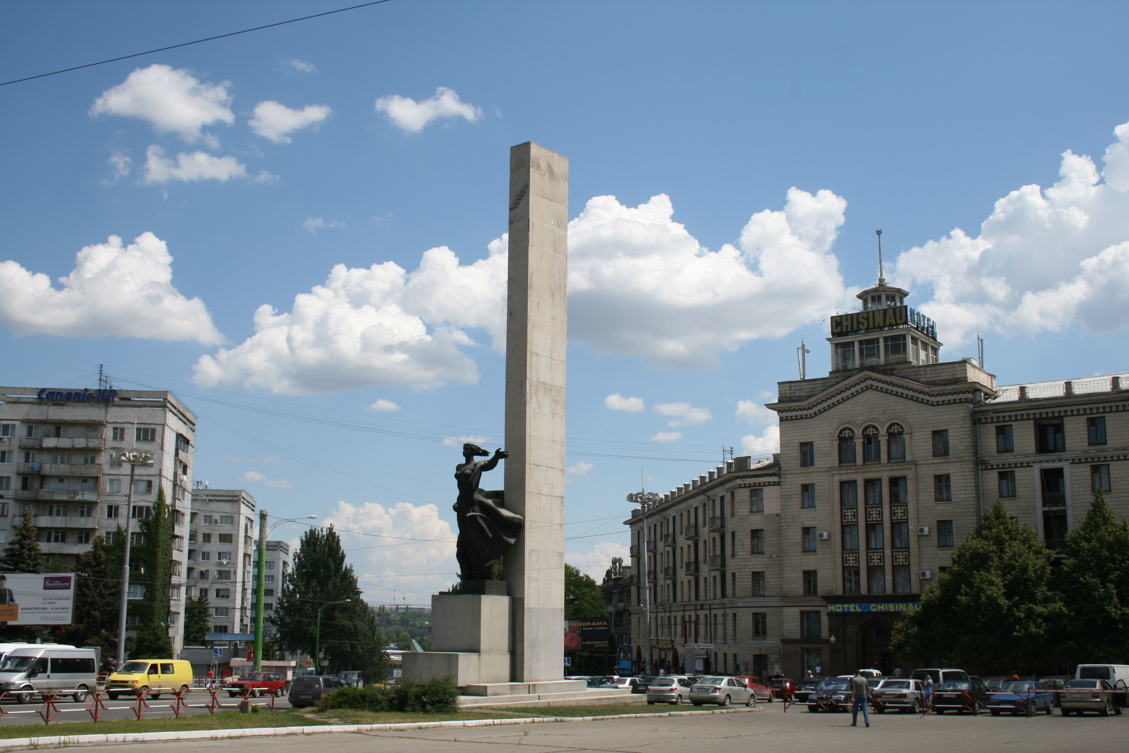 Chişinău in Moldau